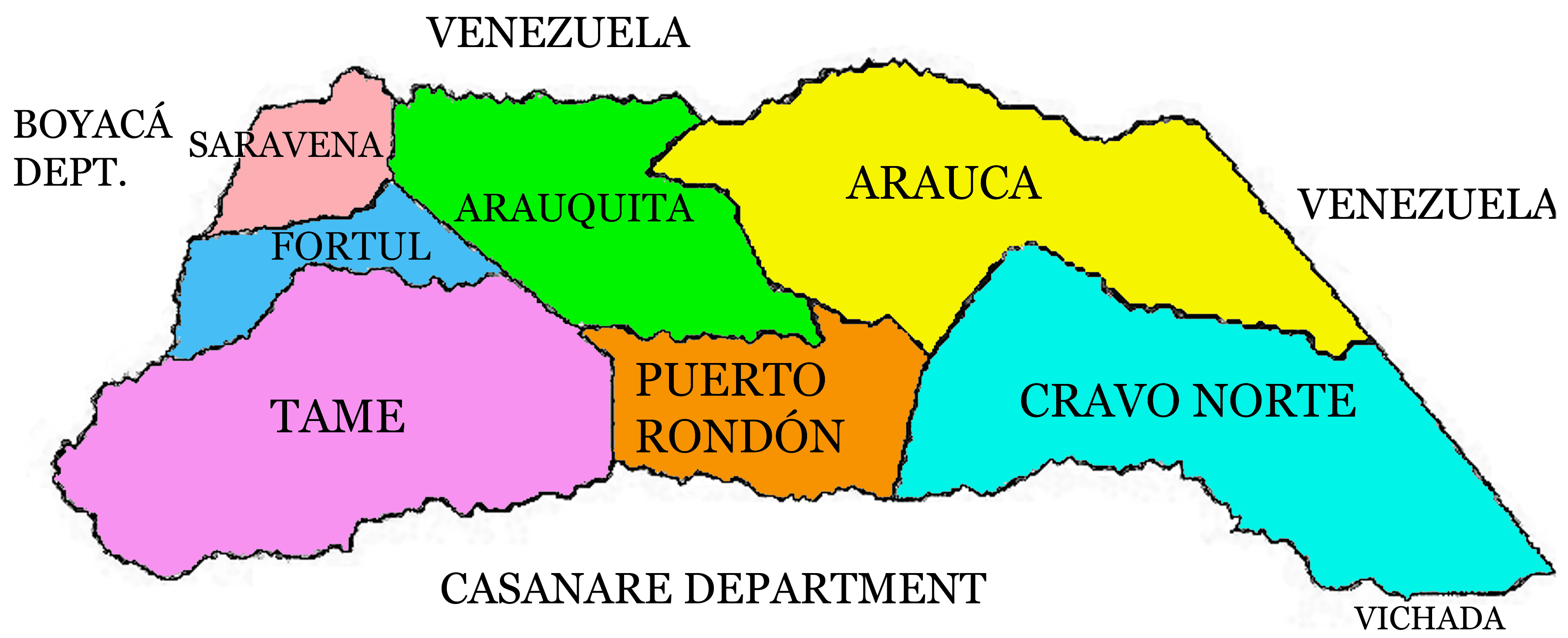 Map of Arauca Department, Colombia, showing municipality boundaries